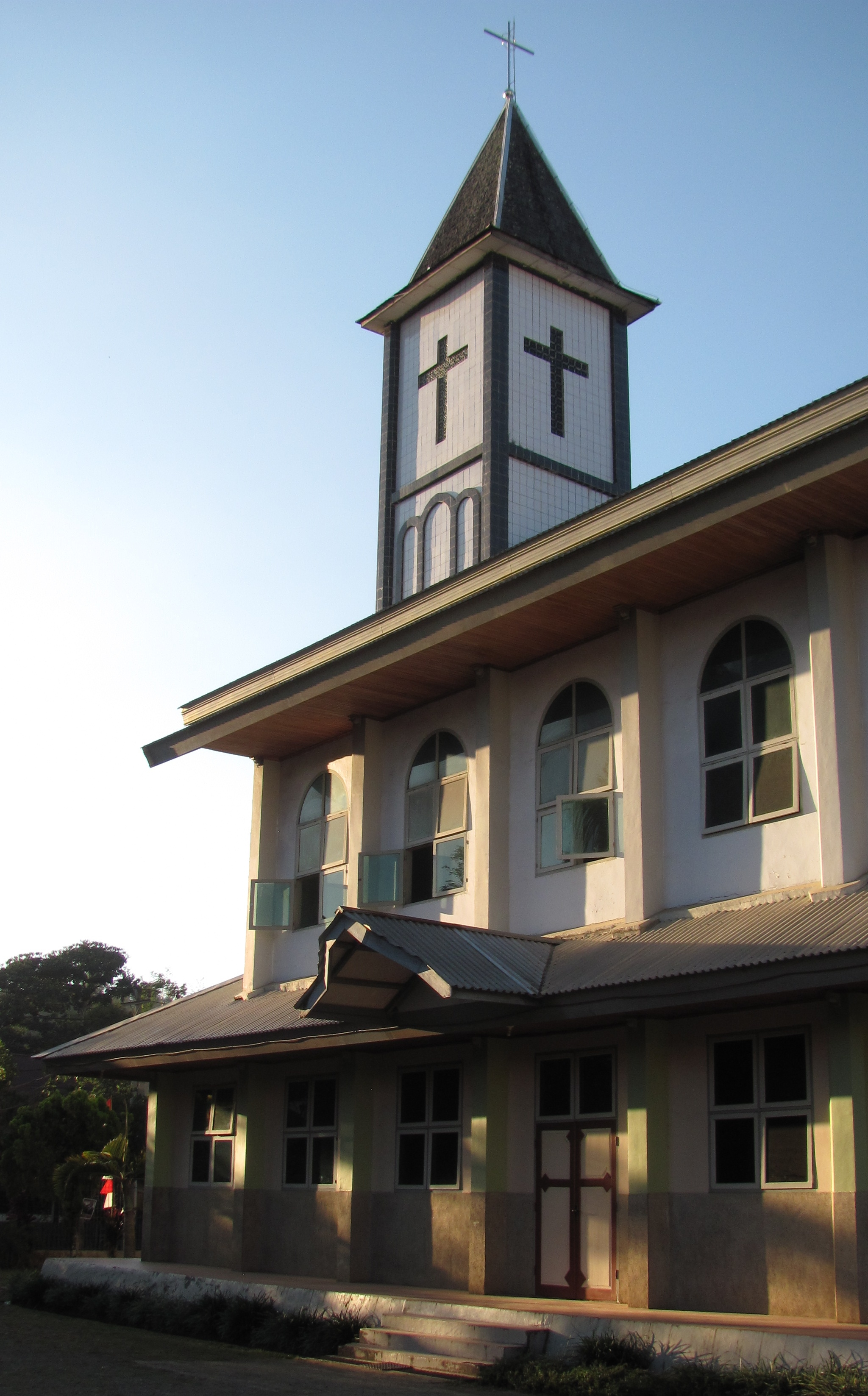 Catholic Church, Rantepao, Sulawesi, Indonesia